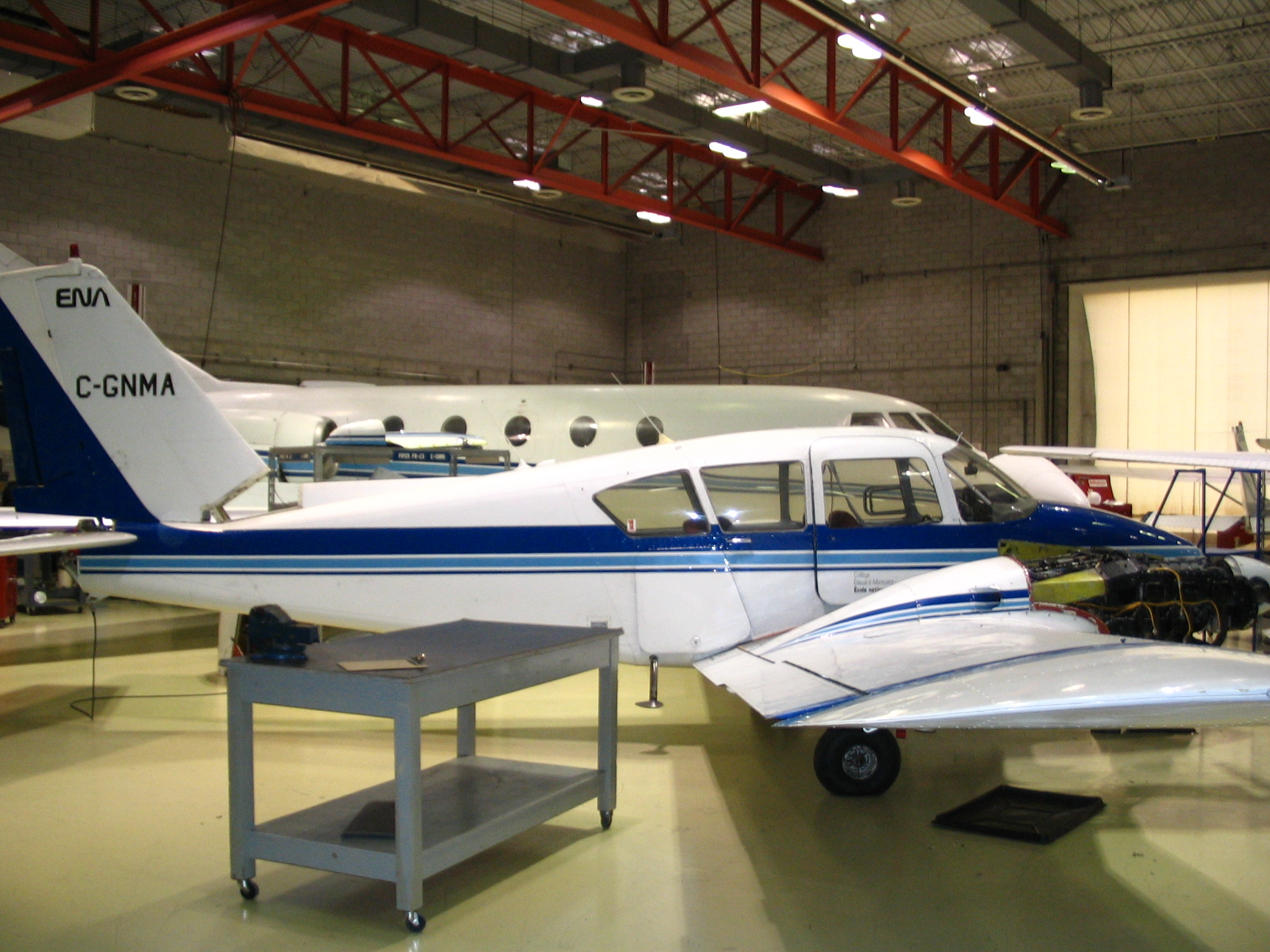 Airplanes in a hangar of the Ecole nationale d'aérotechnique in Longueuil, Québec (Canada).